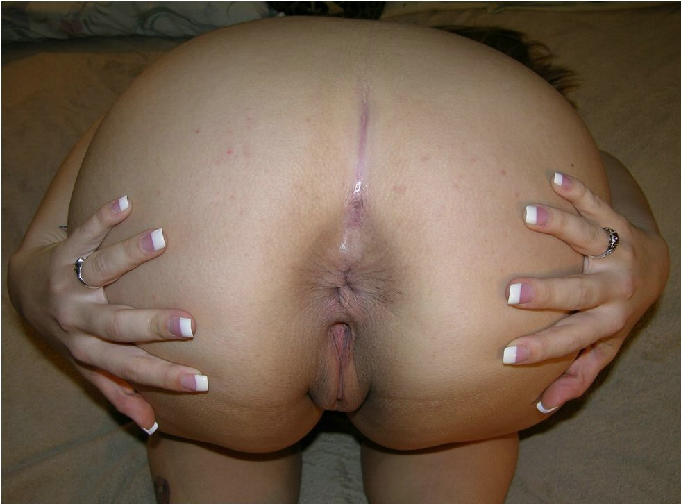 A female human anus